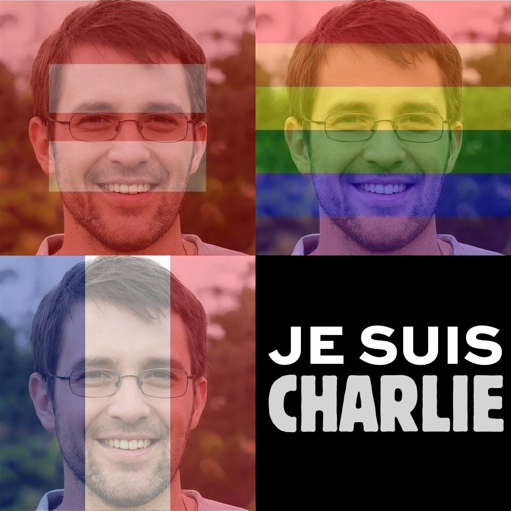 A profile pictrue with filter to support political positions